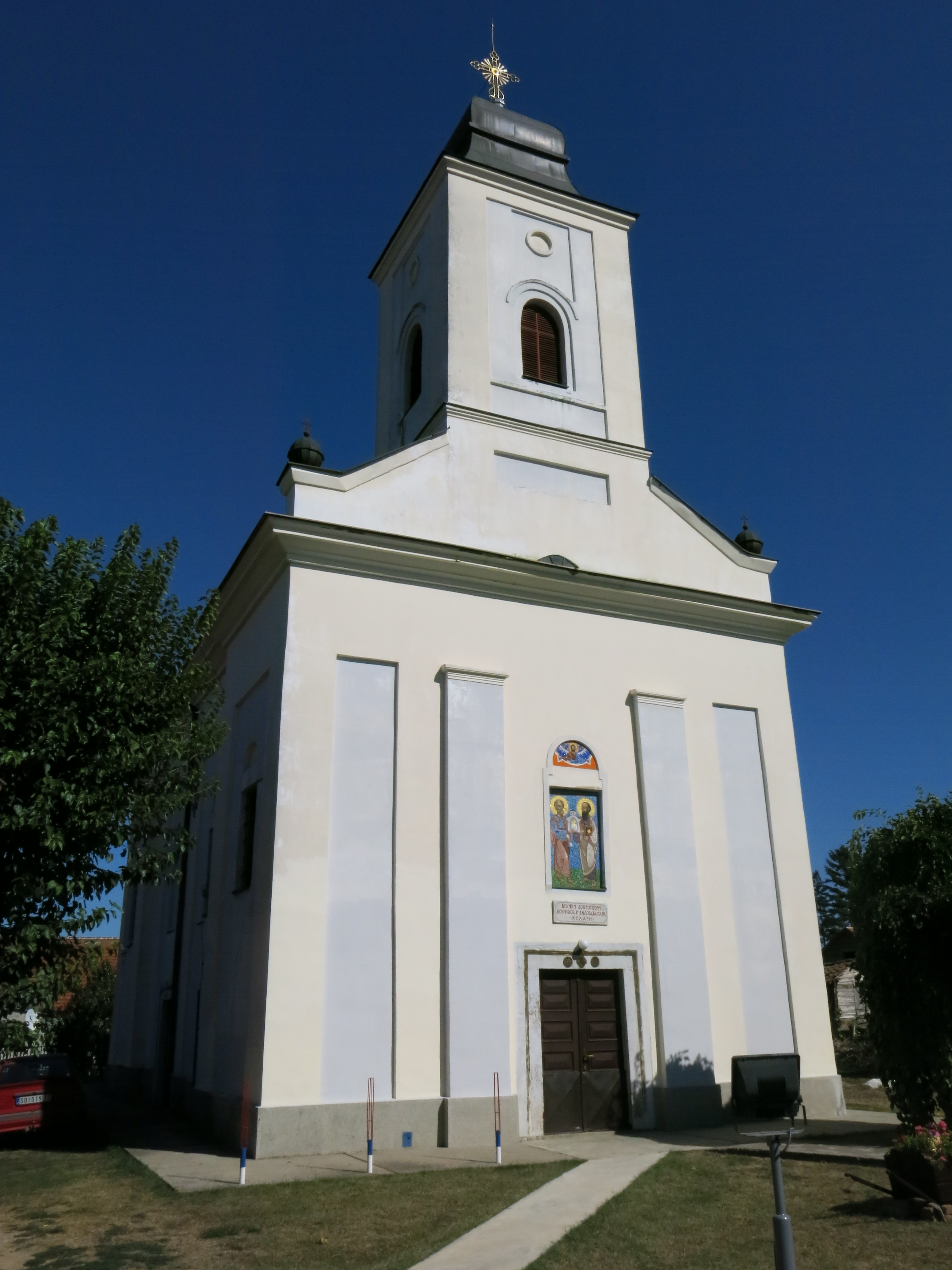 Kolari, Church of the Holy Apostles Peter and Paul